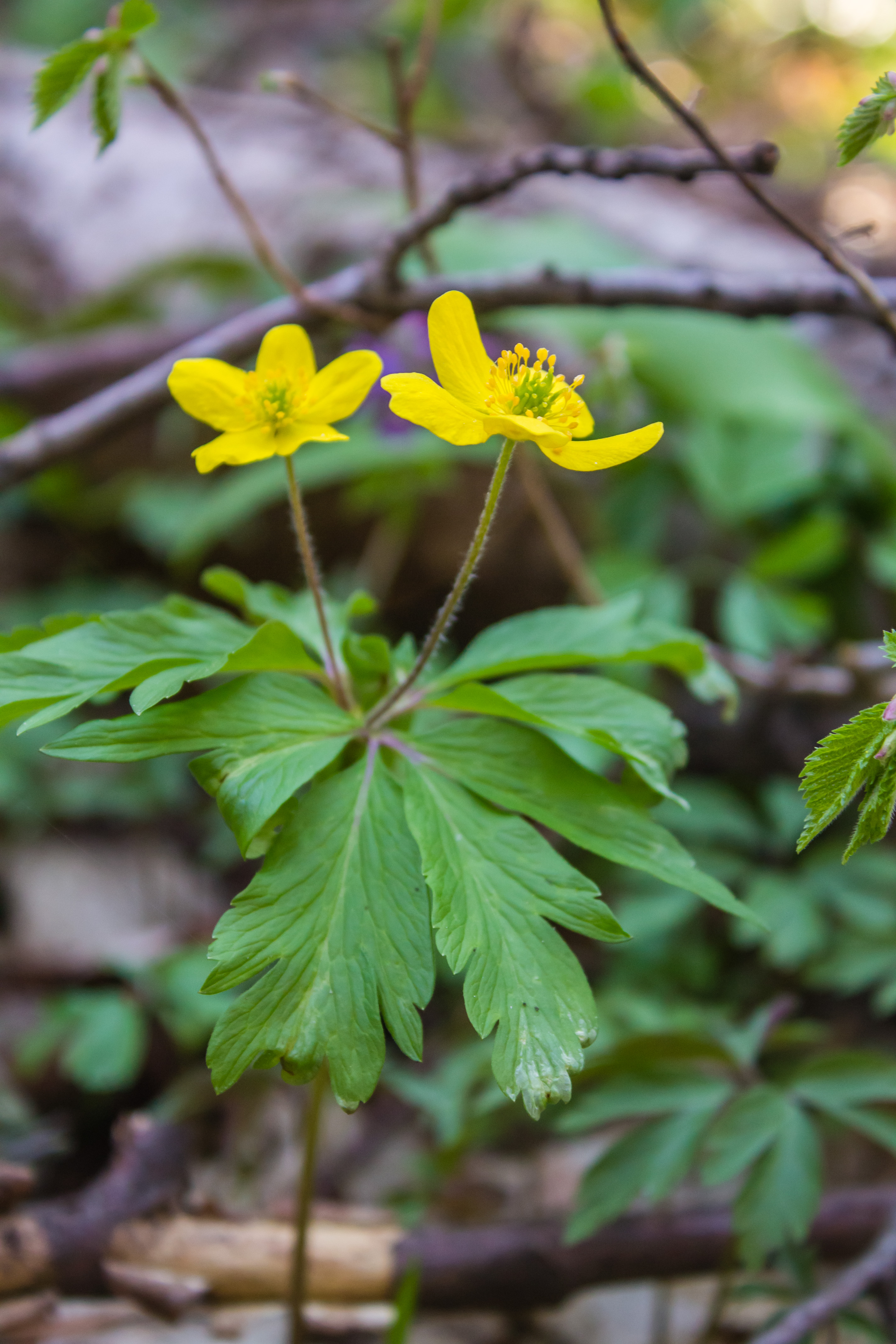 The yellow anemone was found on the bank of forest's river. Ukraine.